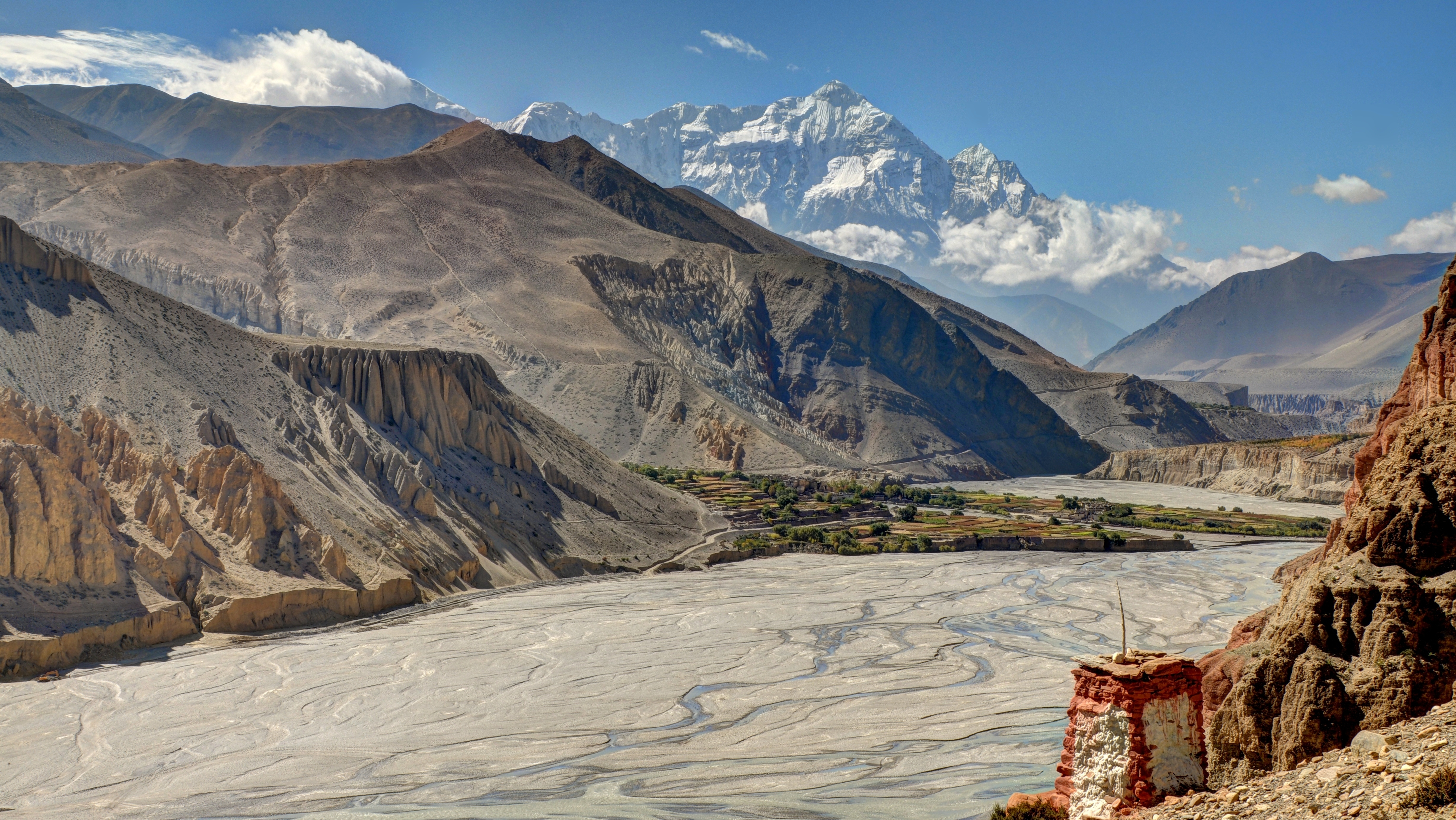 Great views from Thsele down to the fields of Chusang village and Nilgiri with its steep north face.